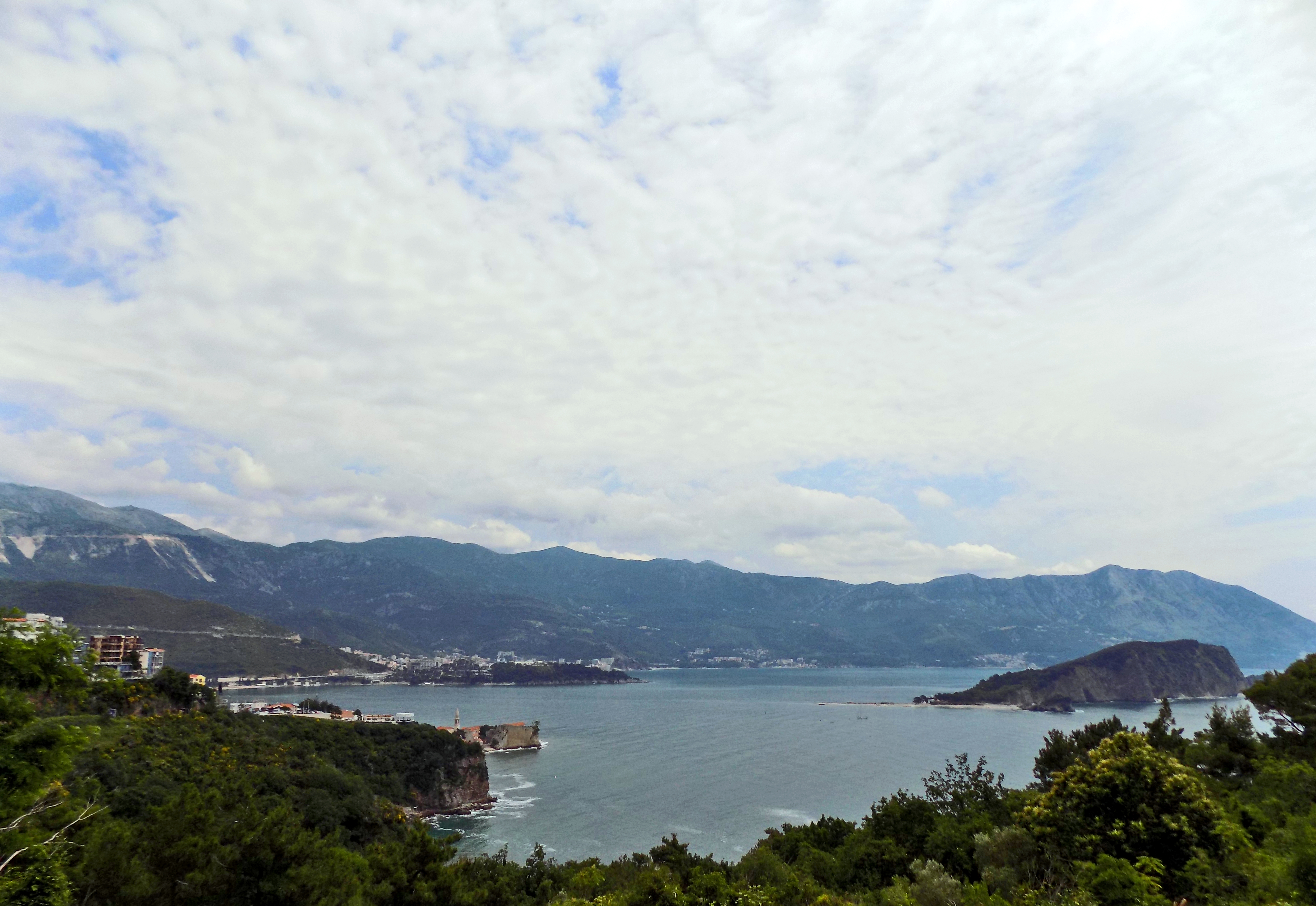 The remains of the Mogren fort on a hill above the beach of the same name, close to Budva (Montenegro)